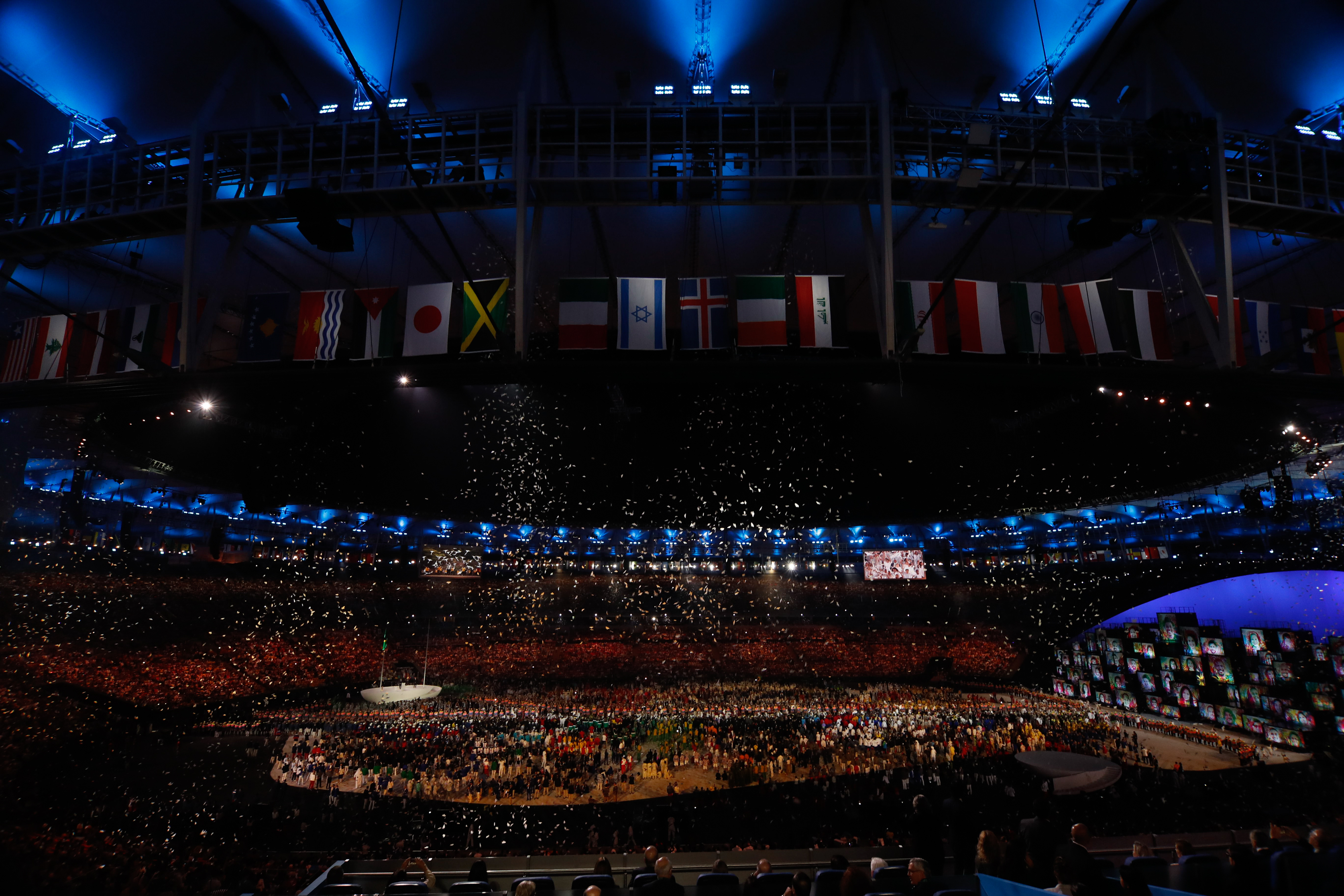 Rio de Janeiro - Cerimônia de abertura dos Jogos Olímpicos Rio 2016 no Estádio do Maracanã. (Fernando Frazão/Agência Brasil)